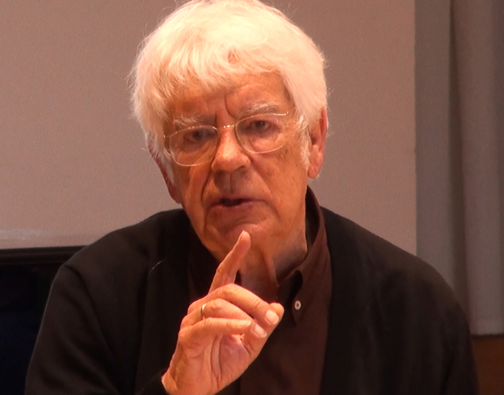 Helmuth Rilling, March 2013.